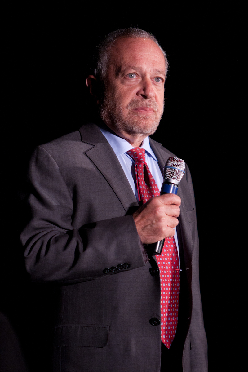 Robert Reich with a Shure brand Microphone, University of Iowa, September 7, 2011.